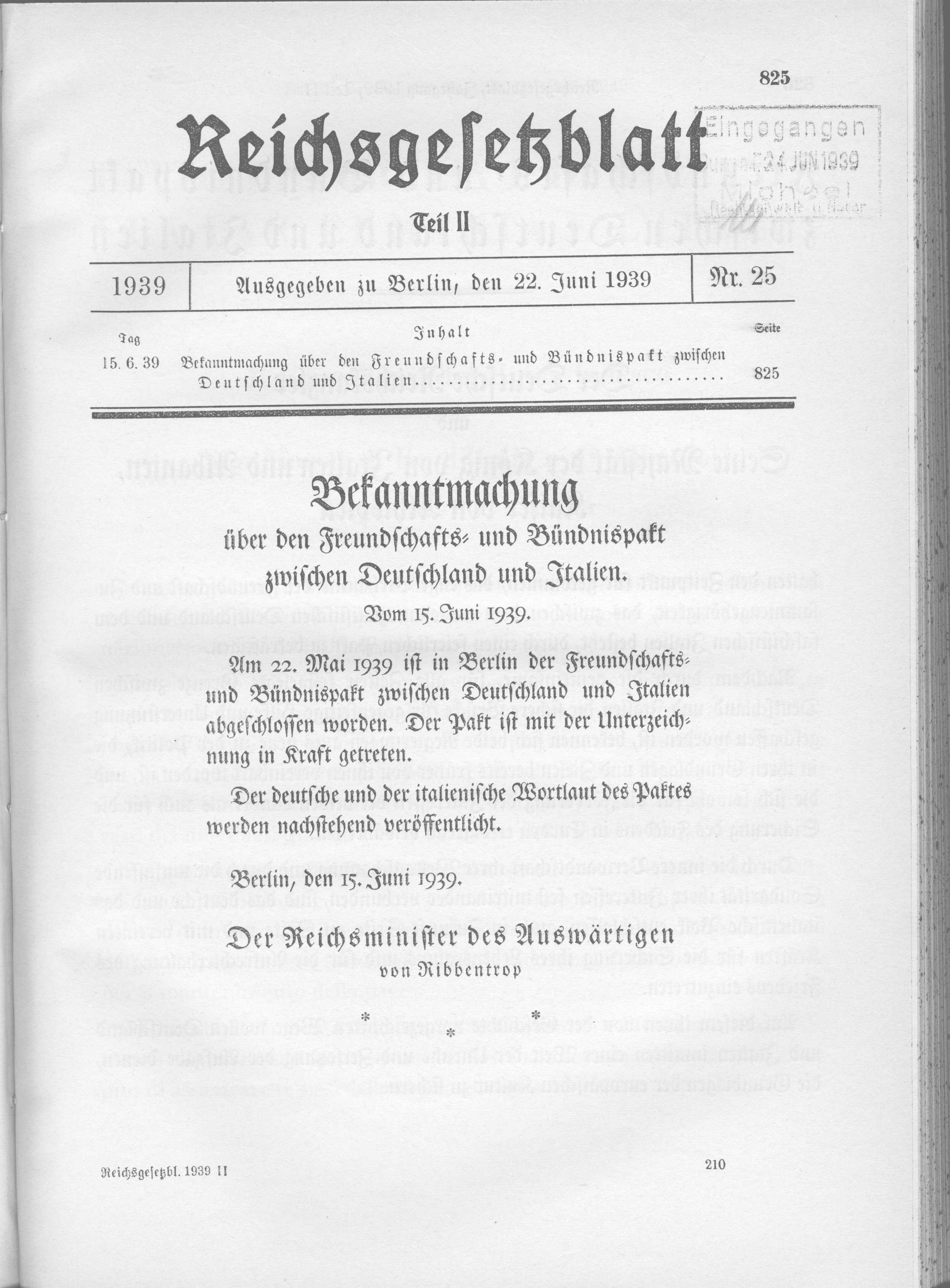 Scan from the Imperial Law Gazette of Germany, 1939, part 2